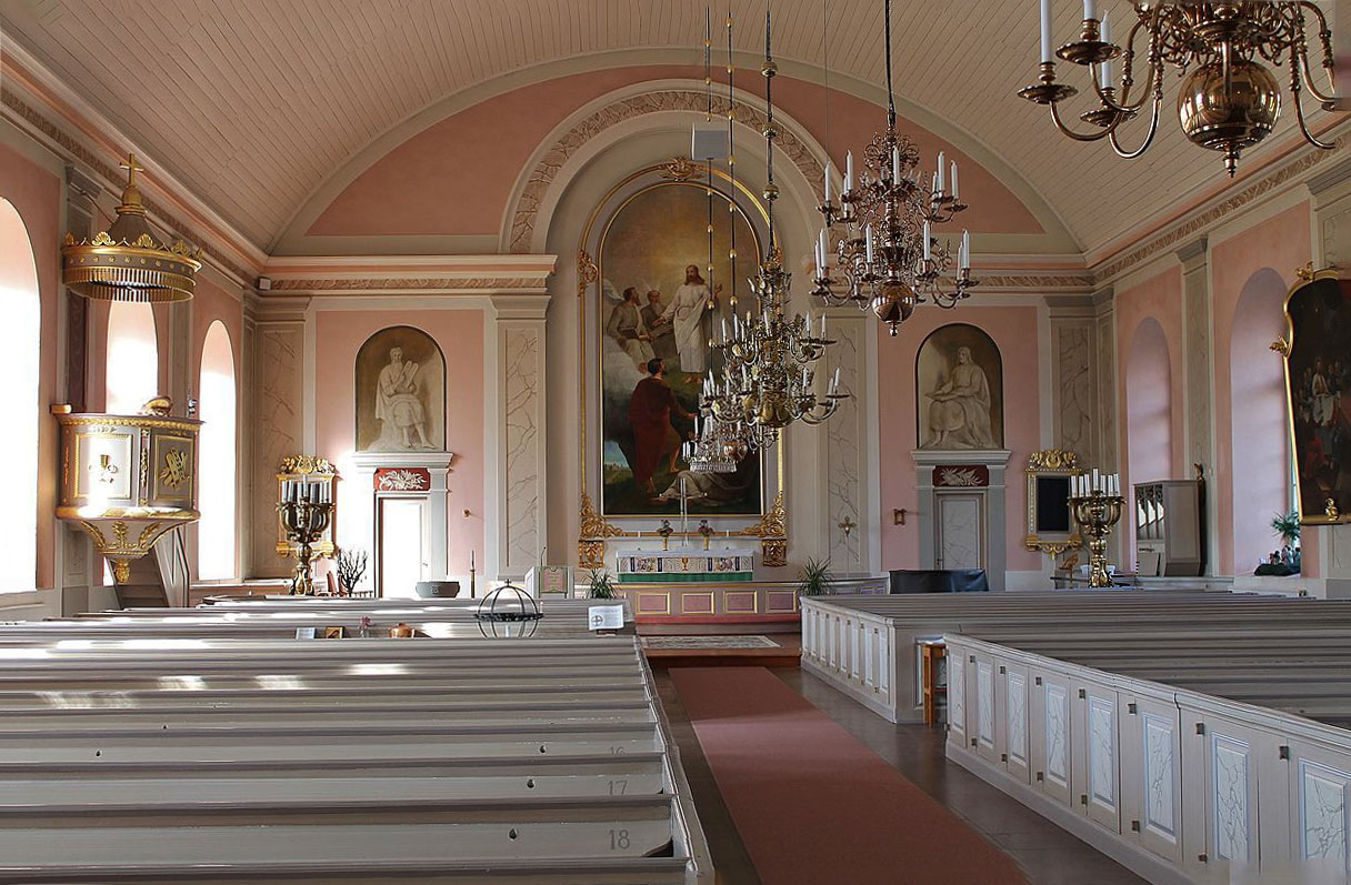 Tingsås Church.The interior of the church looking north.